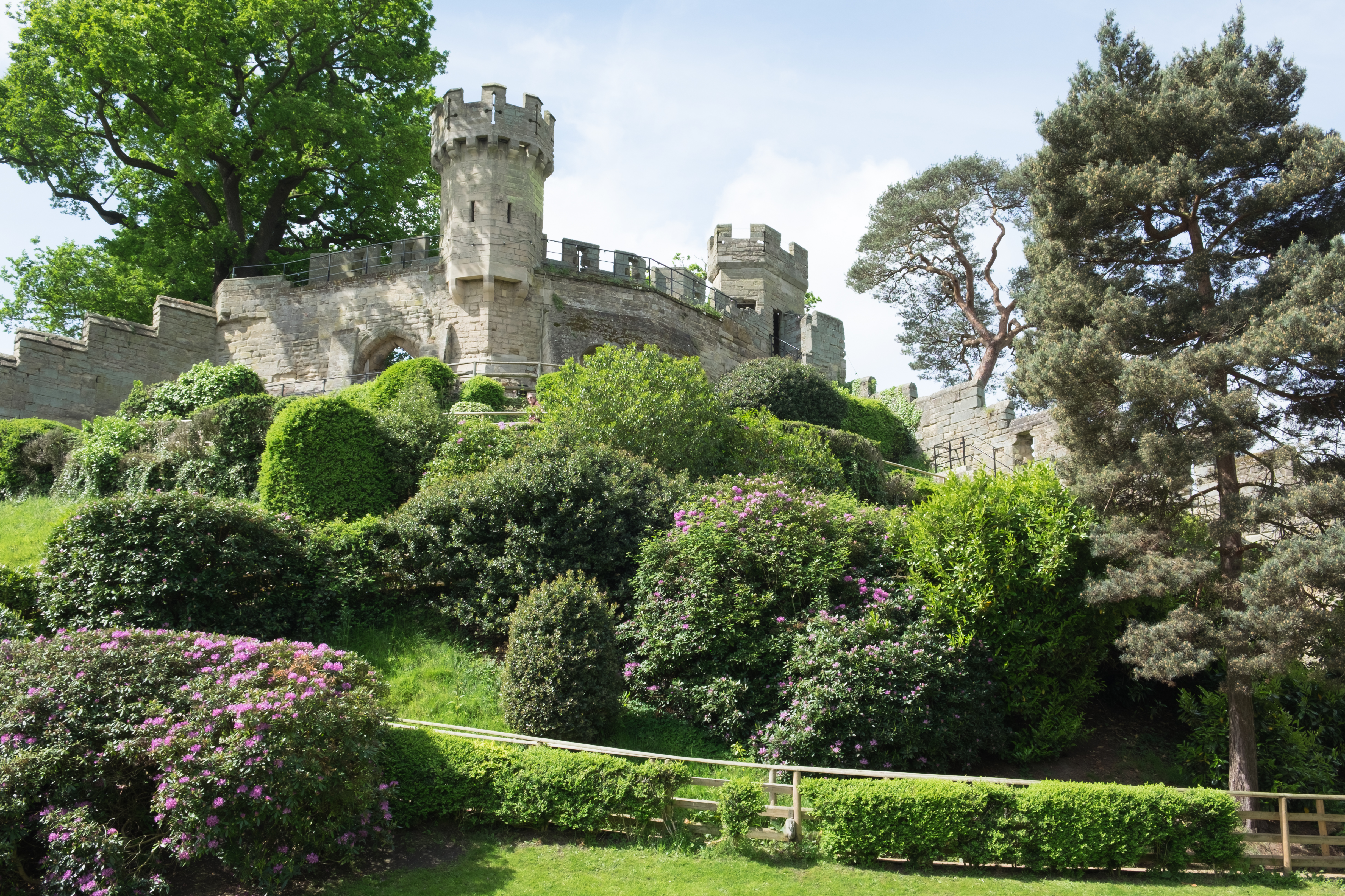 The Mound, Warwick Castle. Dating from 1068, this is the oldest part of the castle, which is a Grade I listed building in England.